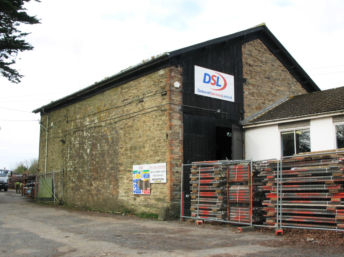 The former Cornwall Railway goods shed at Perranwell, Cornwall, United Kingdom. No longer required for rail traffic, it is now used by a builder's merchant.